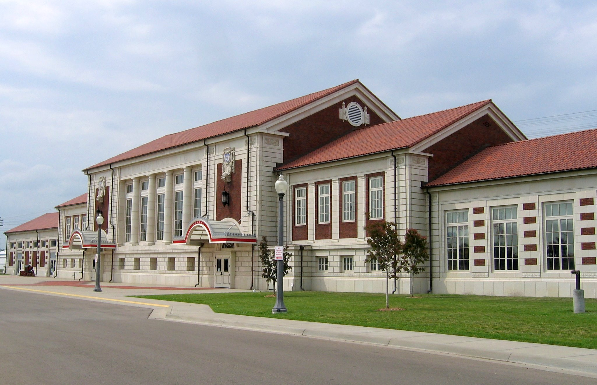 Built in 1927 by Union Pacific Railroad. The last passenger arrived here in May 1971. This station is 25 years younger than the average existing train station in America, but it led a tough life of floods, fires, and abandonment none the less. The restoration project started in 1998 and was completed in June of 2002 when the station re-opend as the Great Overland Station All Veterans Memorial Museum. This is one of the finest train station restoration projects I've seen. For a history of this station please go to